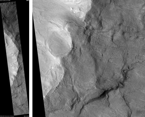 Bonestell Crater, as seen by hiise. Location is 42 North and 330.1 East. Scale bar is 1000 meters long. Image was taken by the Mars Reconnaissance Orbiter's HiRISE. The HiRISE camera was built by Ball Aerospace and Technology Corporation and is operated by the University of Arizona. Image courtesy NASA/JPL/University of Arizona.